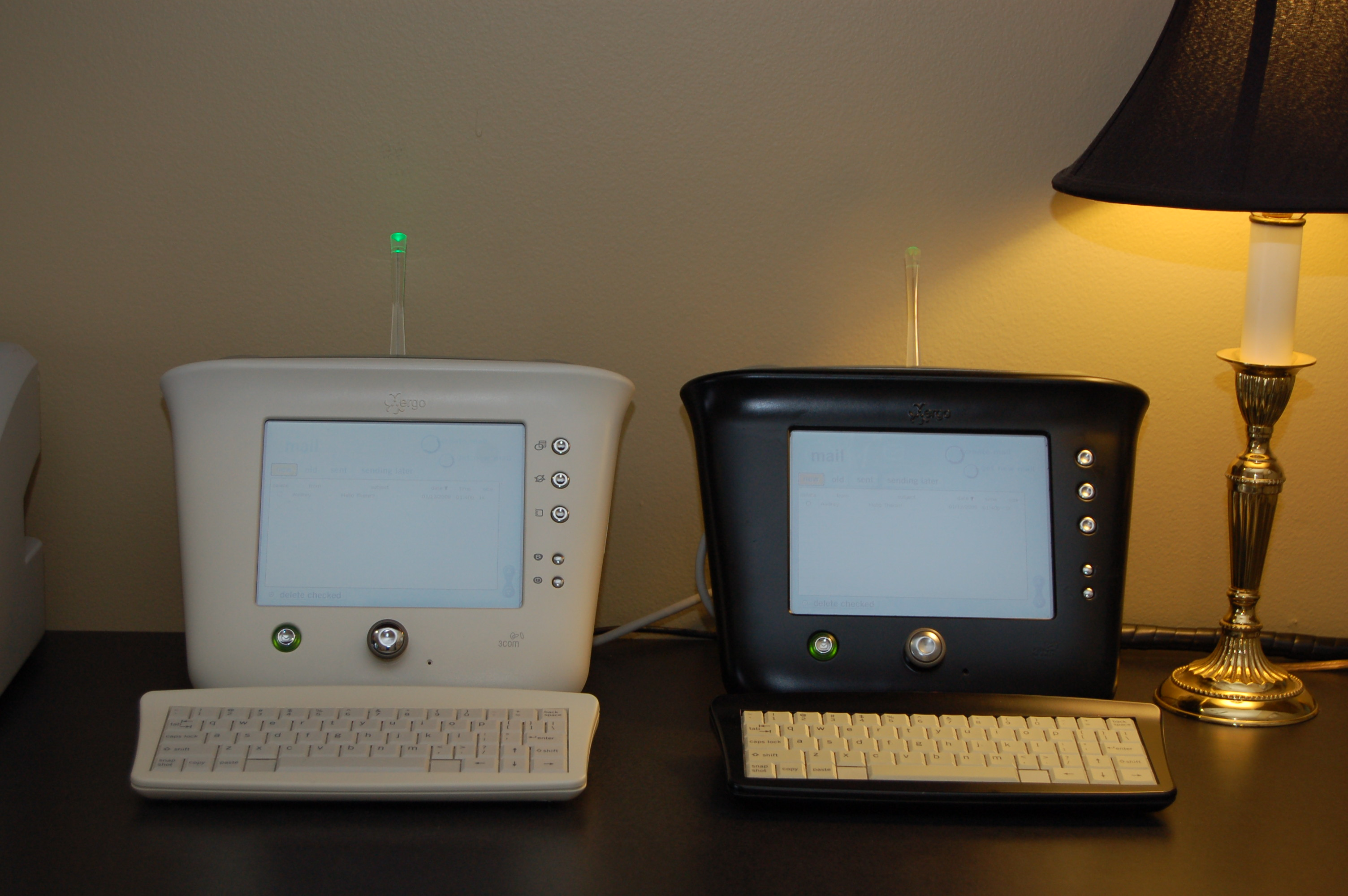 3Com Ergo Audrey original Linen and Audrey custom-painted black with message light on